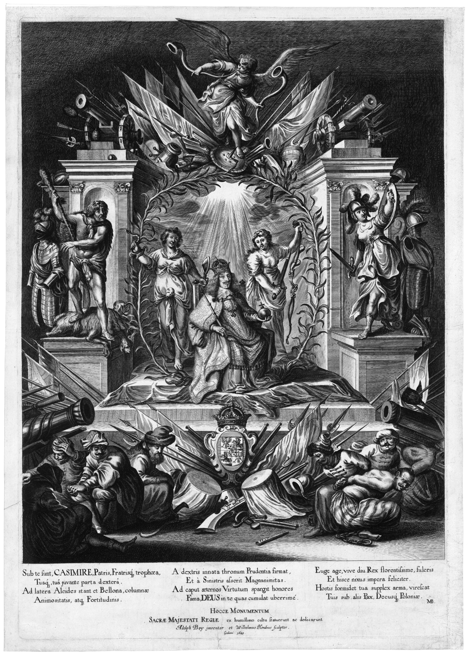 Apotheosis of Polish King John II Casimir Vasa by Wilhelm Hondius 1649